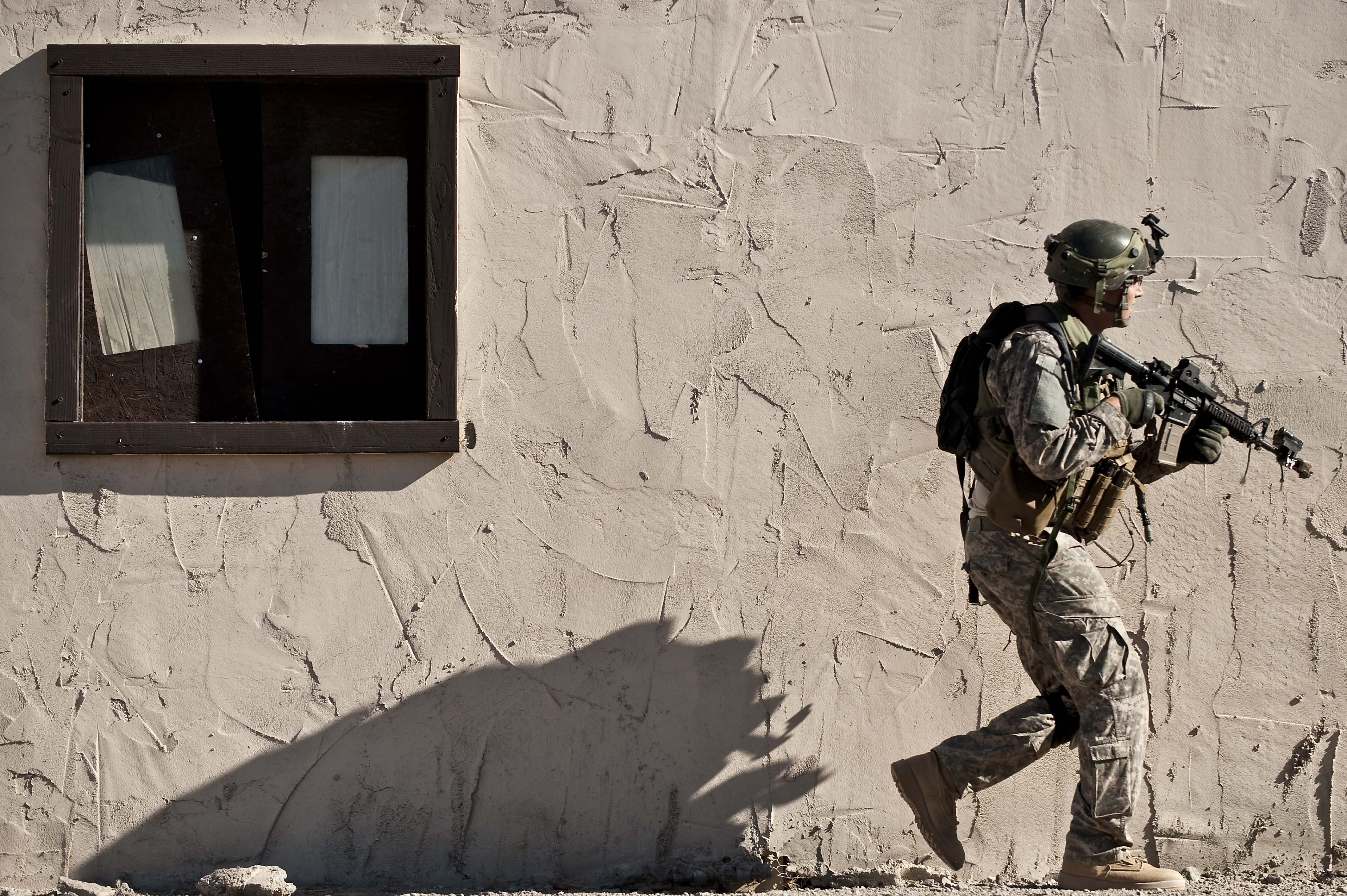 U.S. Air Force Airman 1st Class Michael Pincheira, a joint tactical air controller with the 5th Air Support Operations Squadron, provides security during a training exercise in the National Training Center at Fort Irwin, Calif., on Aug. 14, 2011. Joint tactical air controller airmen trained with the 12th Combat Training Squadron as part of Green Flag-West to prepare for upcoming deployments.